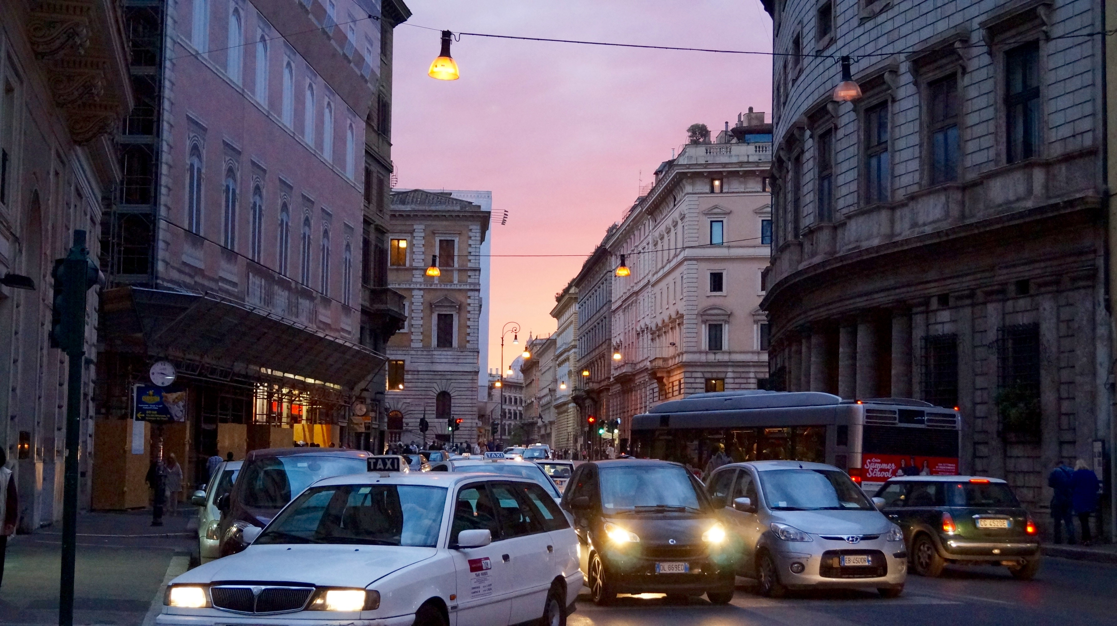 Streets of Rome